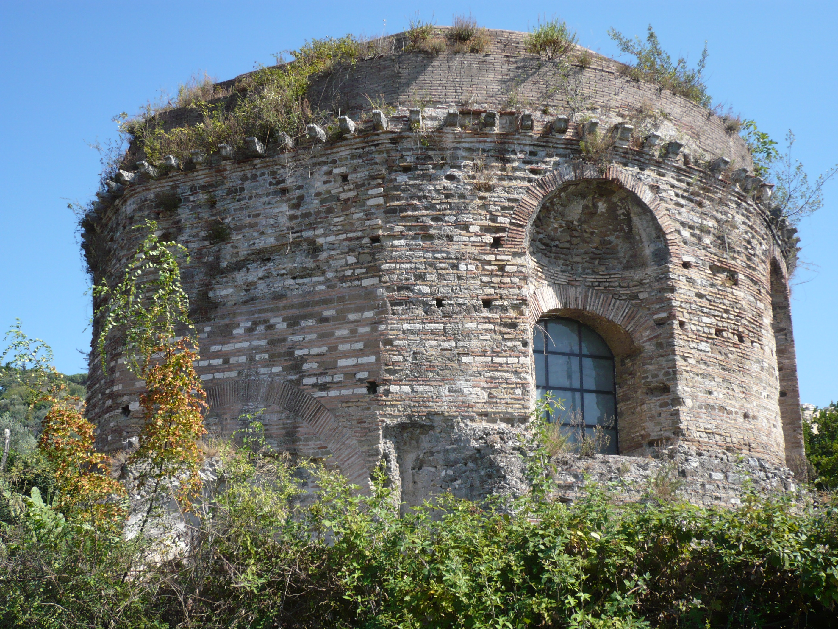 Temple of Cough, Tivoli